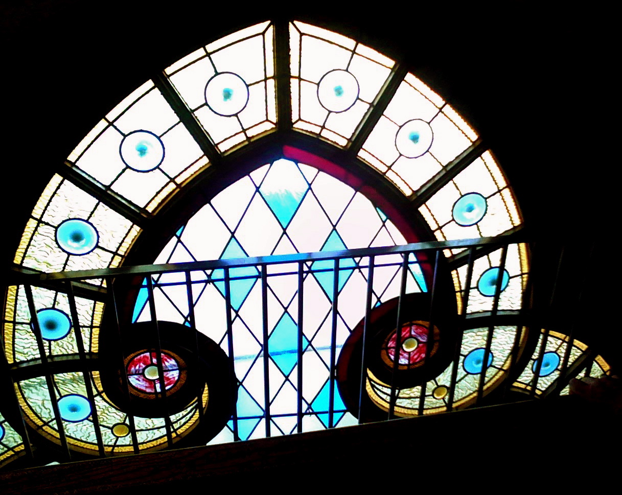 Stained glass window remaining inside Temple Emanu-El, Building on National Register of Historic Places, Helena, Montana. Now, ironically, houses the administrative offices of the Helena Diocese of the Roman Catholic ChurchBuilding on National Register of Historic Places, Helena, Montana. Little of original interior remains as building was converted into office space.